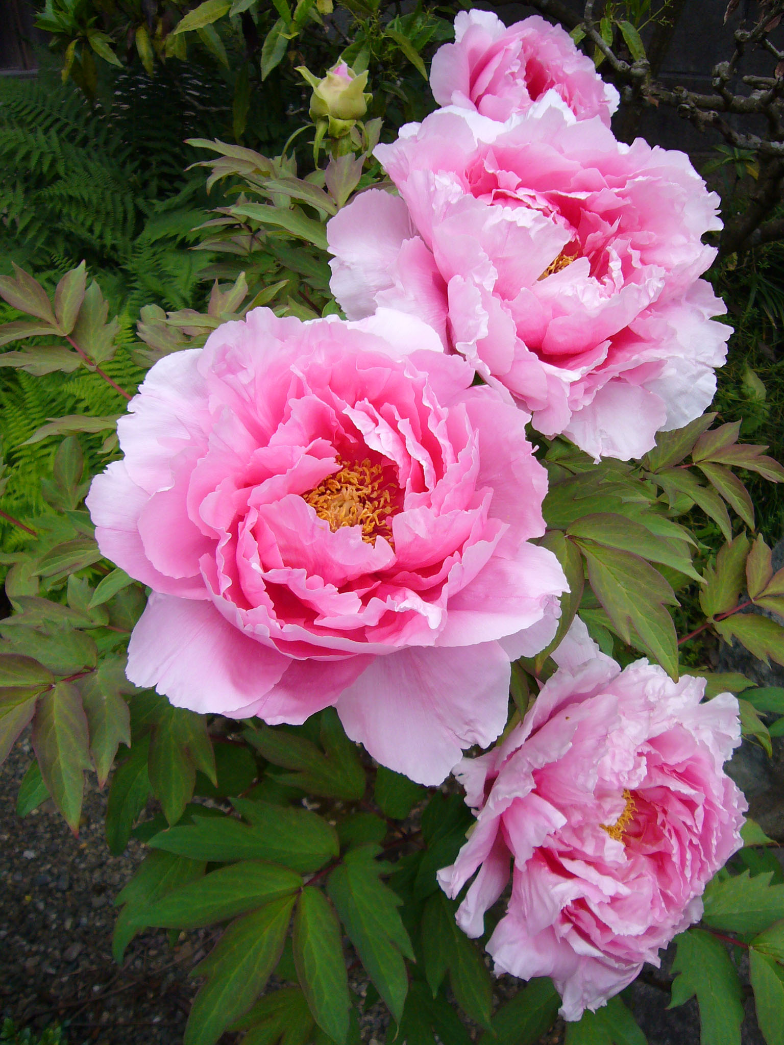 The peony of Kanonji in Sasayama, Hyogo prefecture, Japan